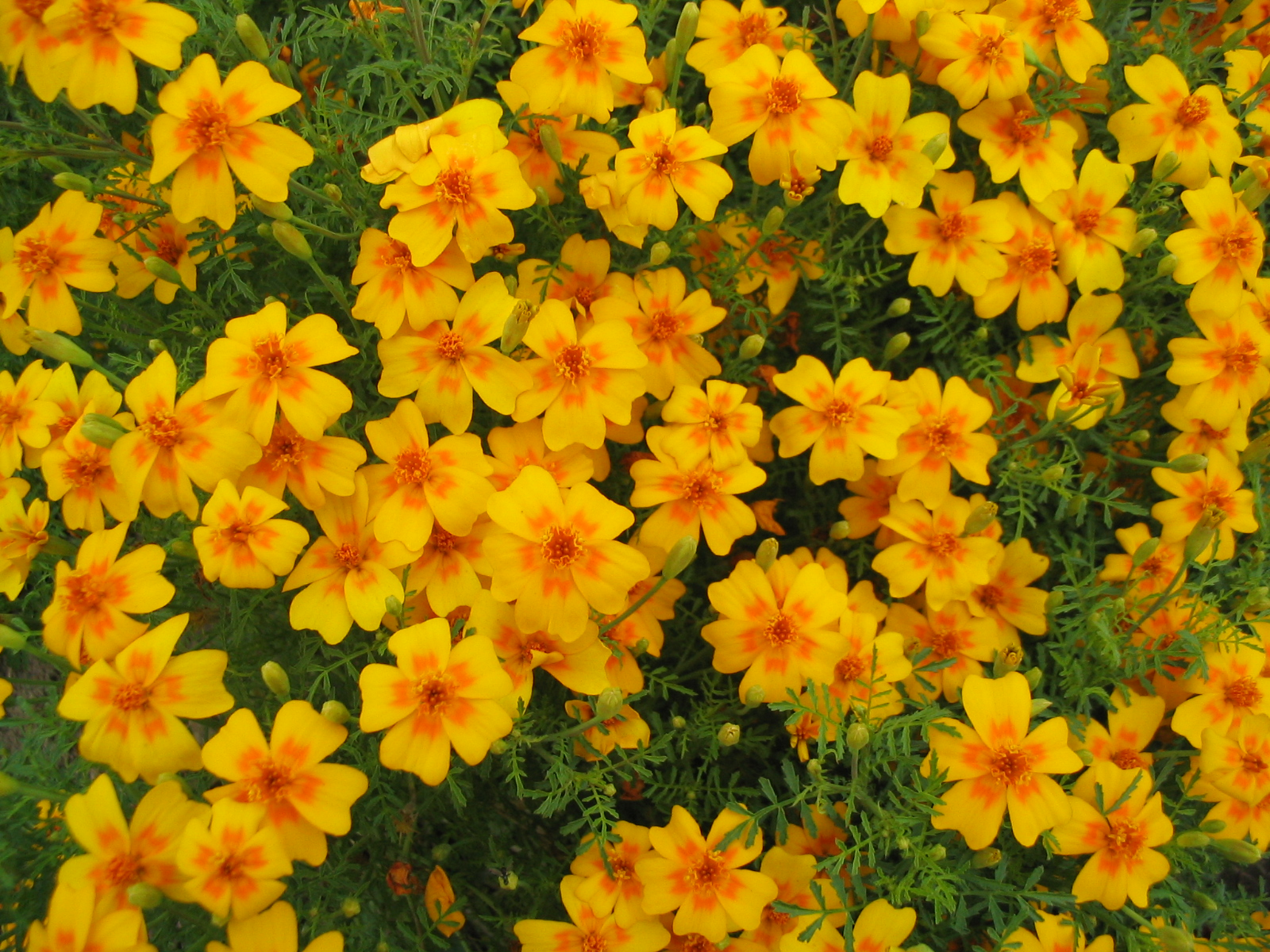 Tagetes tenuifolia Author: Goku122